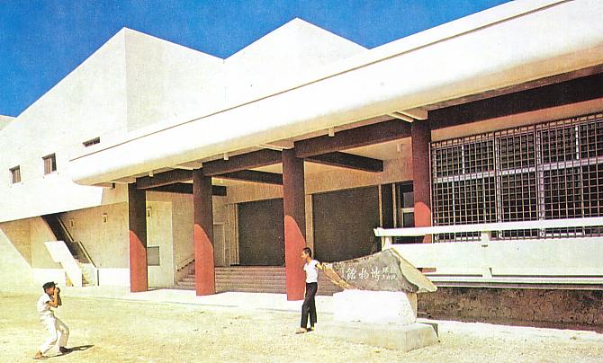 GRI Museum circa 1970